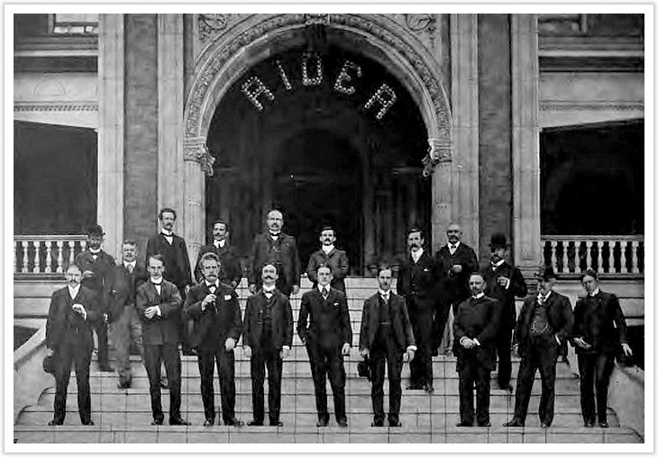 Participants of the 1904 Cambridge Springs Chess Tournament. Front row: Barry, Napier, Showalter, Mieses, Fox, Pillsbury, Chigorin, Delmar and Marshall. Second Row: Schlechter, Hodges, Helms, Janowski, Marco, Lasker, Lawrence, Cassel and Teichmann.